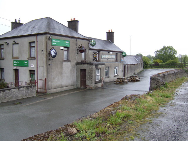 Gilsenan's Pub and Post Office, Drumree, Co. Meath By the R125 at the bridge over the Skane River.